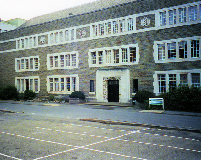 Aberystwyth University School of Economics